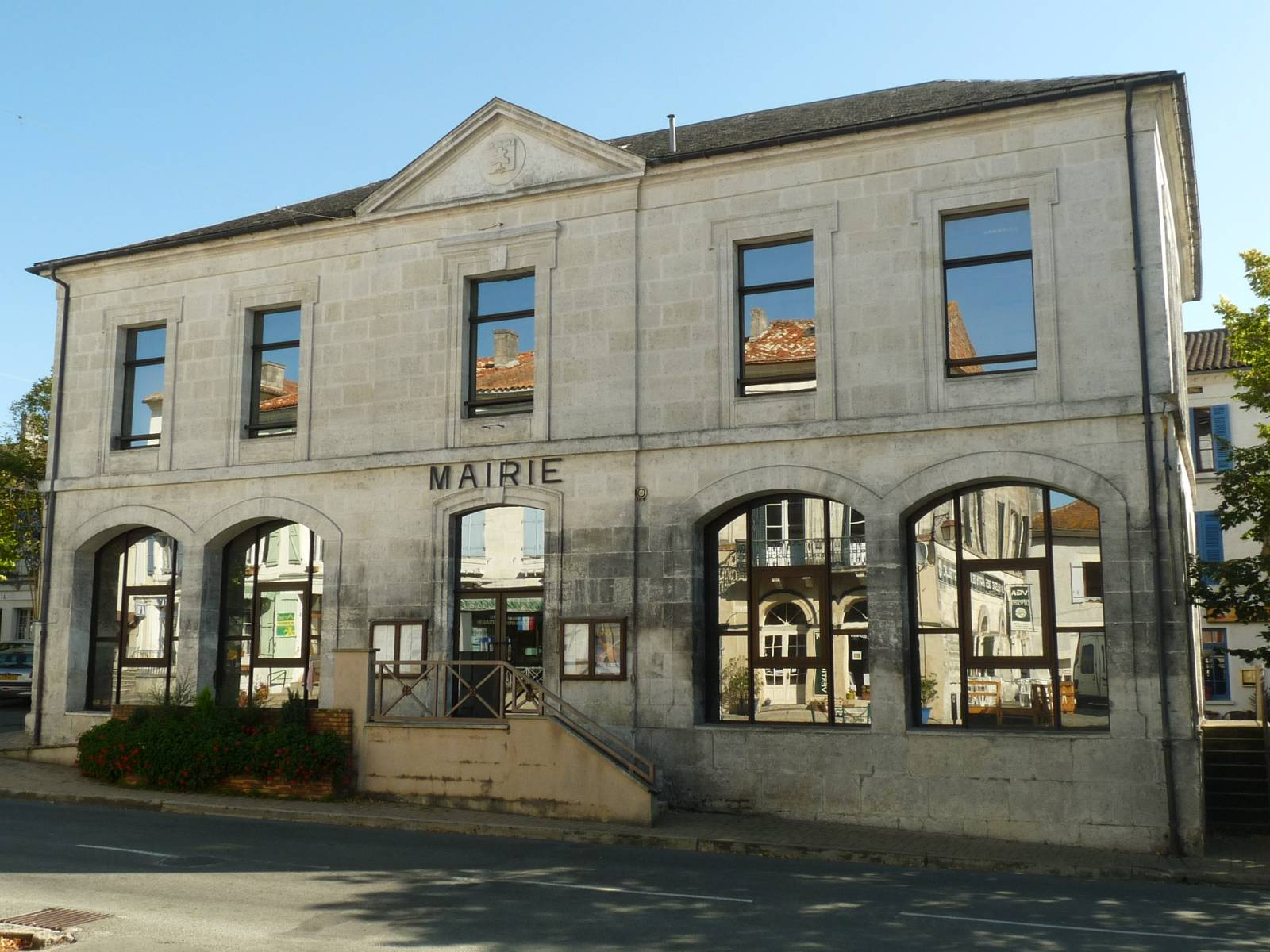 town hall of Vertaillac, Dordogne, SW France